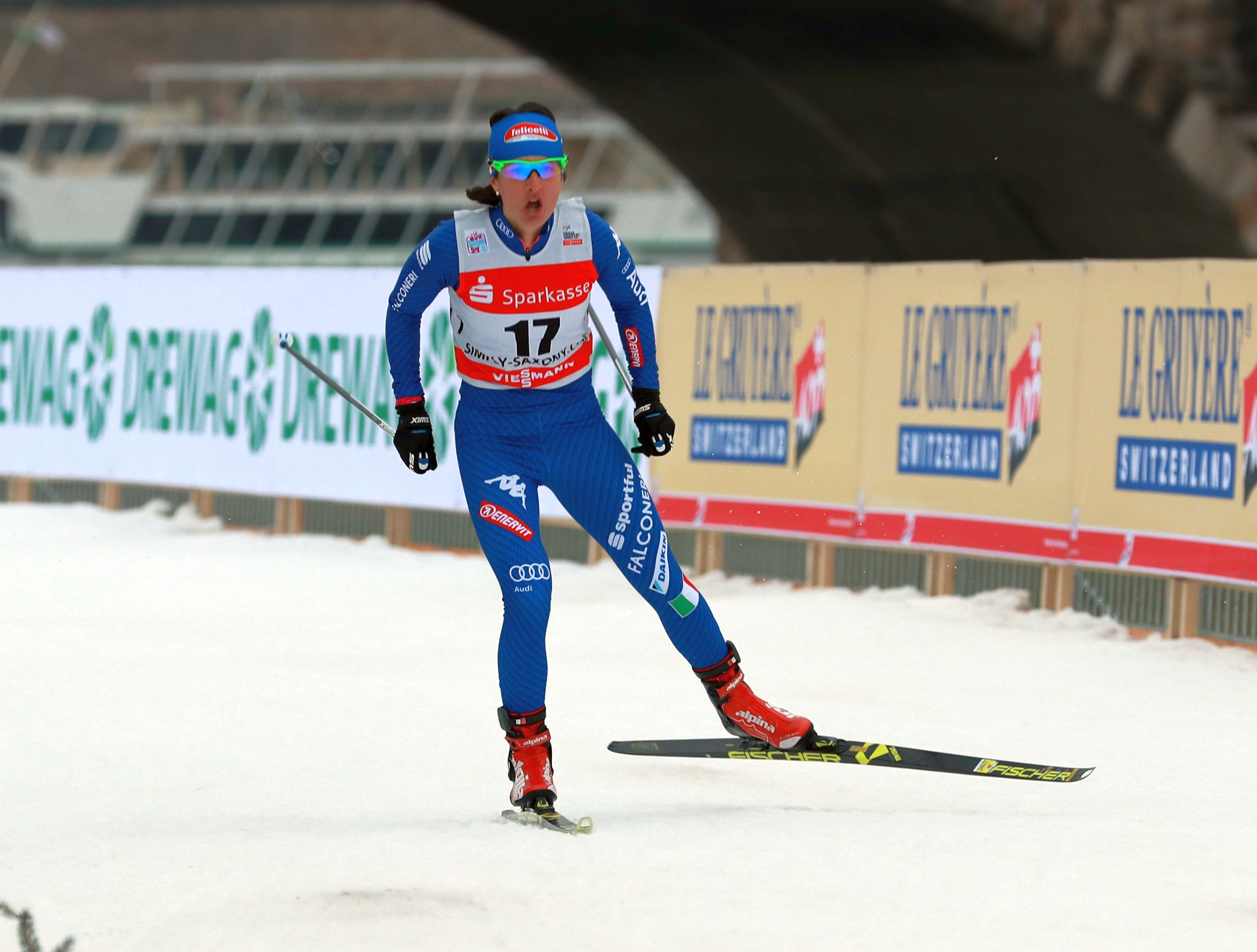 Womens Prolog at the FIS Cross-Country World Cup Dresden 2018: Gaia Vürich